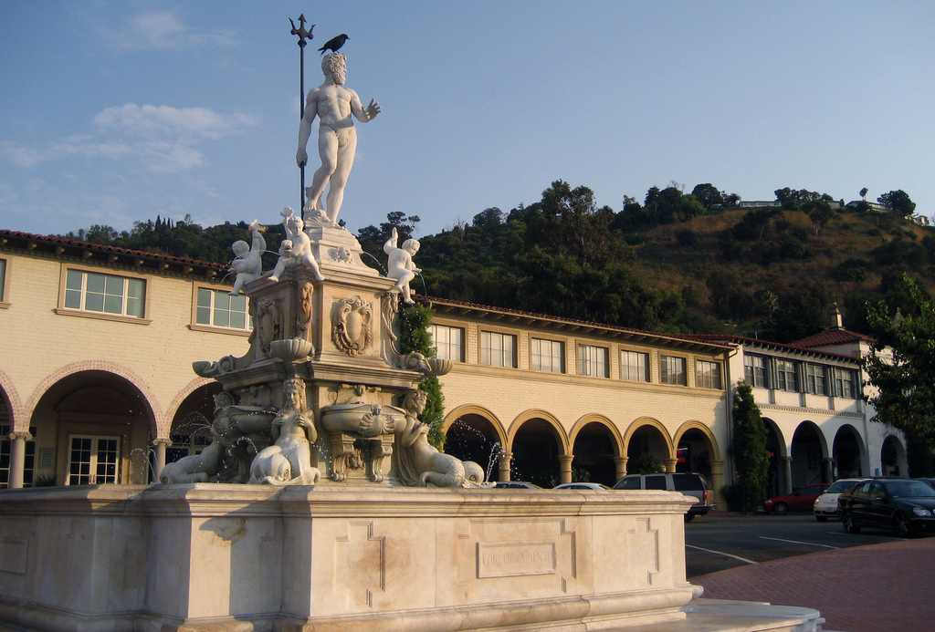 1920s fountain with statue of Neptune, at Malaga Cove Plaza — in Palos Verdes Estates, on the Palos Verdes Peninsula, Southern California.